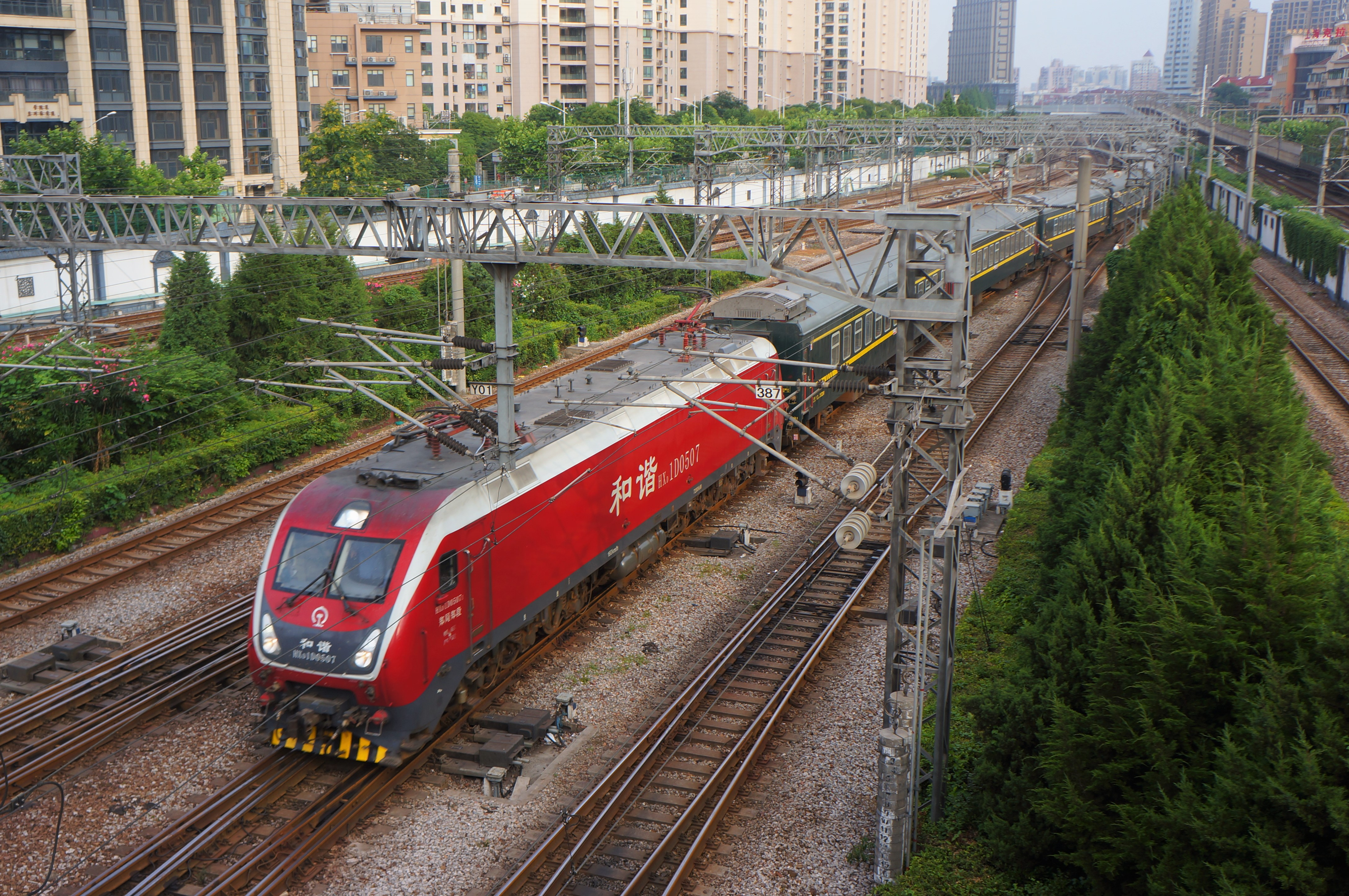 201806 HXD1D-0507 hauls K151 from Zhengzhou at Shanghai Station